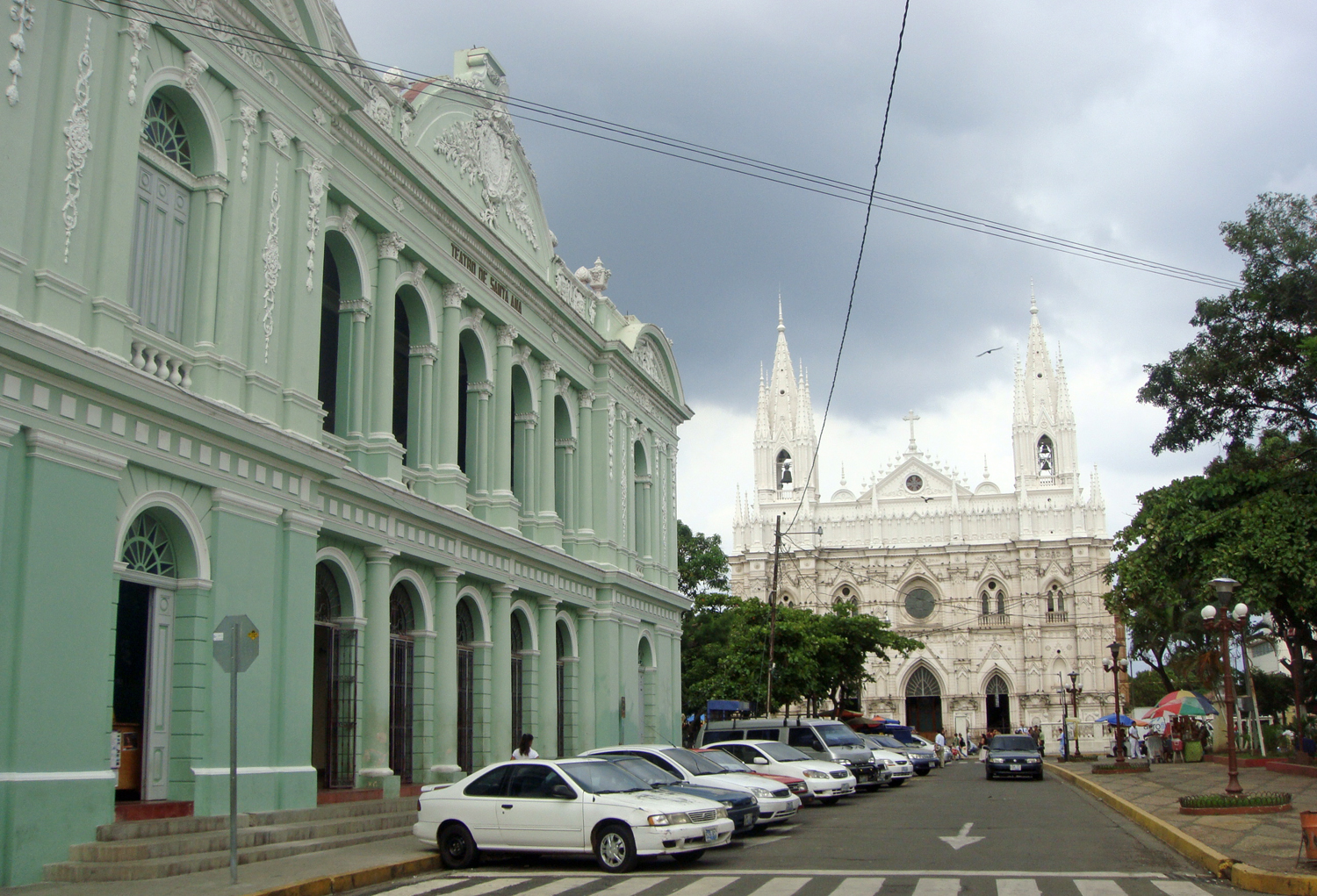 Santa Ana Theater (right) and Cathedral (back), Santa Ana, El Salvador